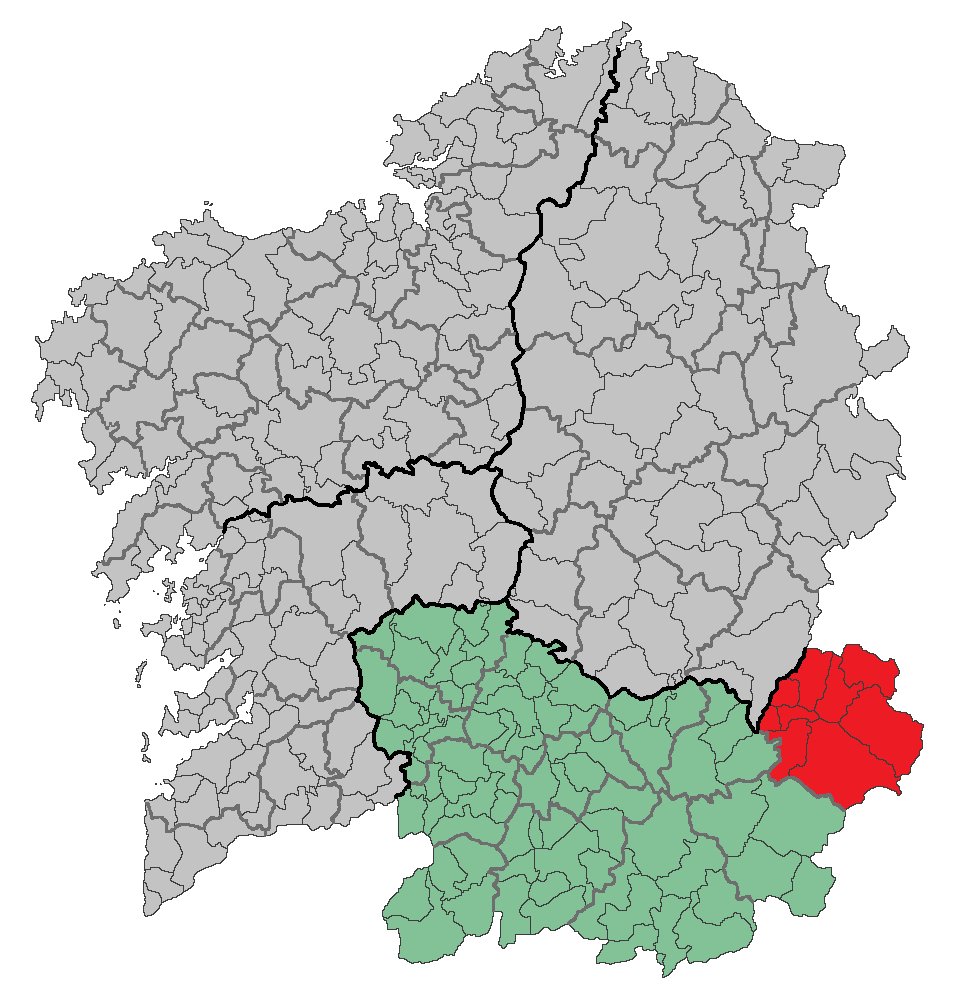 Region of Galicia (Spain)Based in: Image:Location of Betanzos.png Source: Designed by Leoplus. Original picture, designed by Caiser over a work made by Alyssalover.